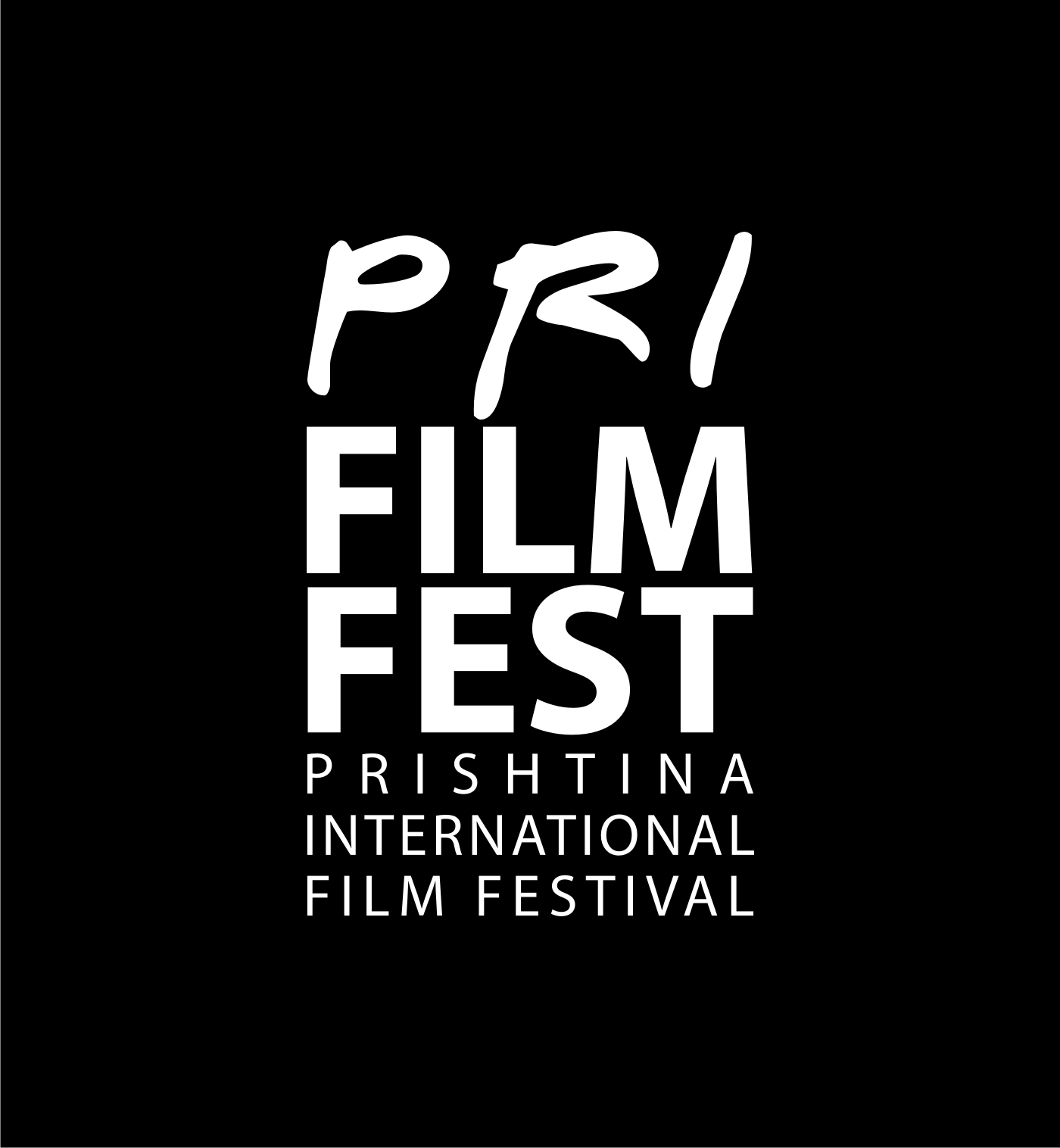 Pristina film festival logo